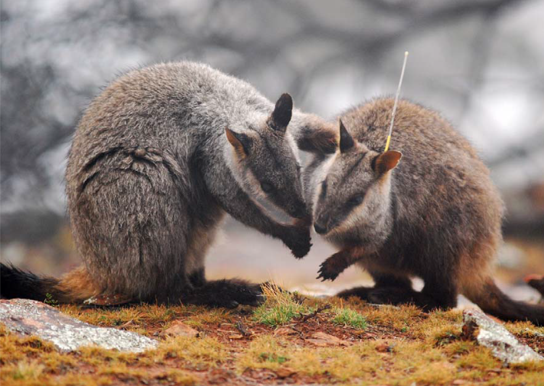 A wild brush-tailed rock-wallaby meets an animal released from a captive breeding program (on right, with radio tracking collar). Photo Credit: Hugh McGregor